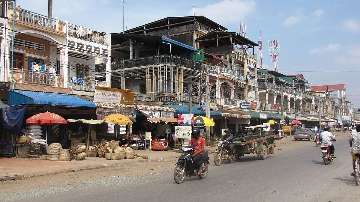 Town of Kampot, Cambodia